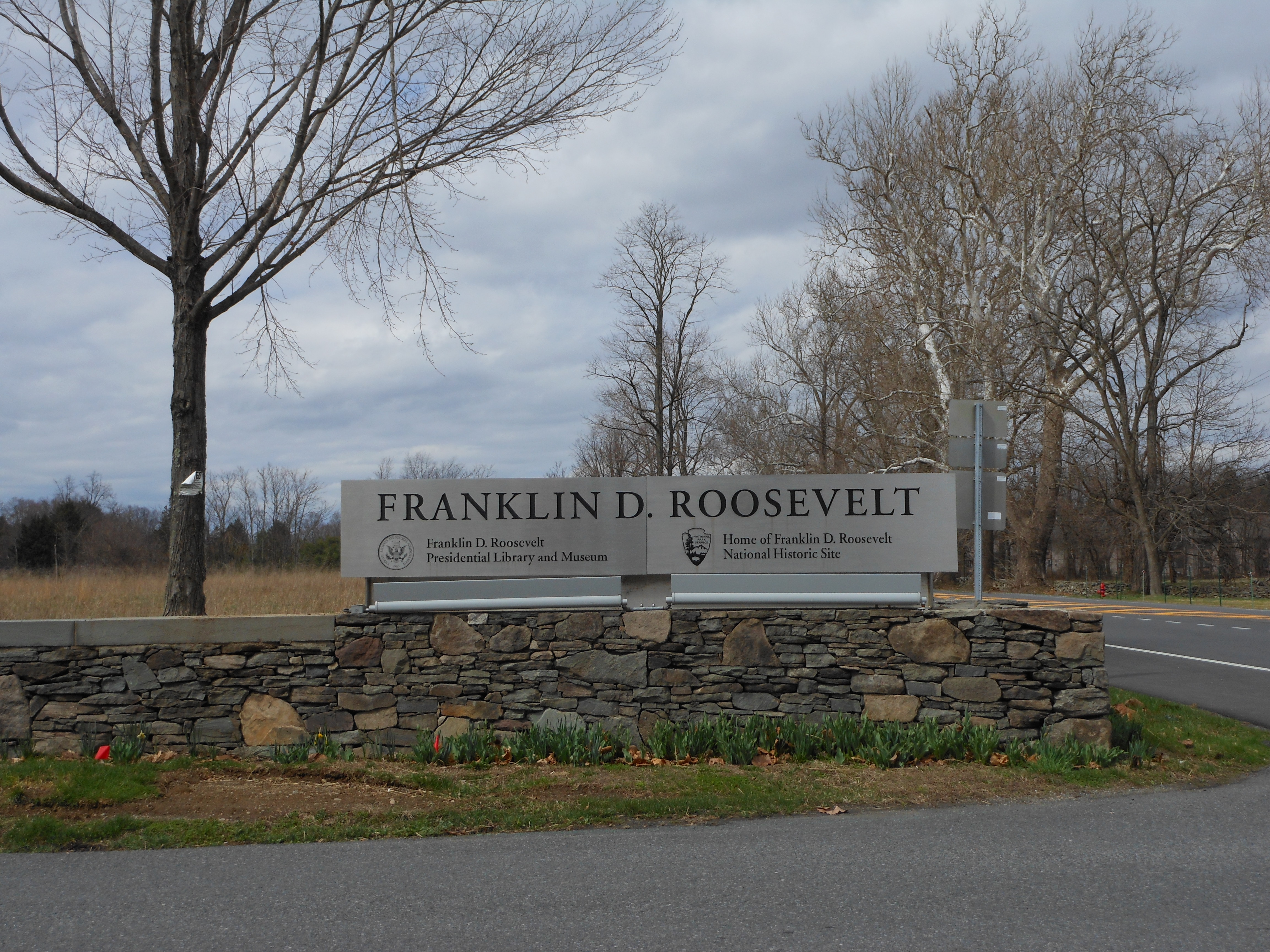 FDR National Historic Site at Hyde Park, NY